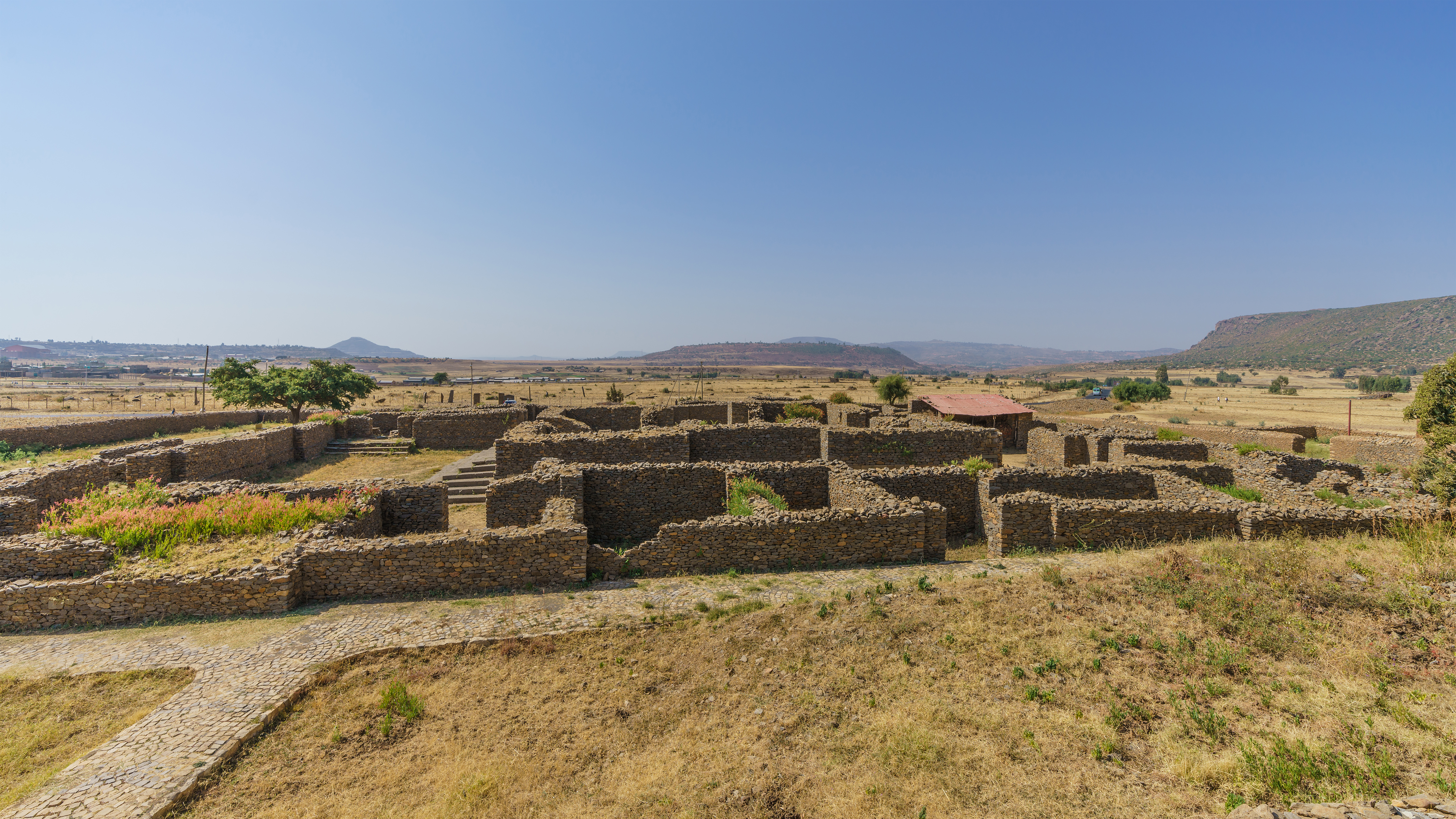 Ruins of Dungur (also known as Queen of Sheba's Palace) in Aksum, Tigray Region, Ethiopia